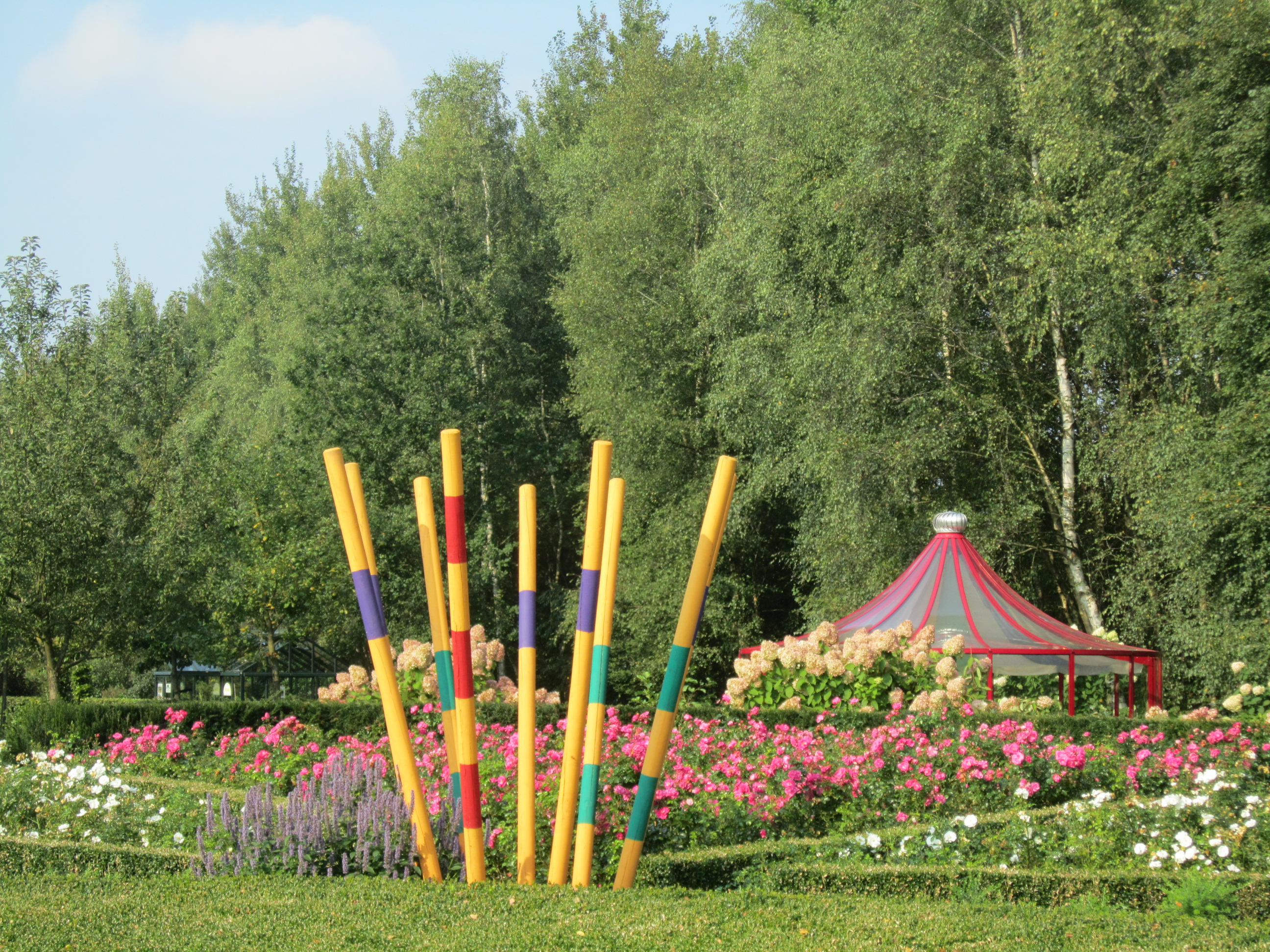 "Blumenreich" (="Empire of Flowers") - Park in Wiesmoor